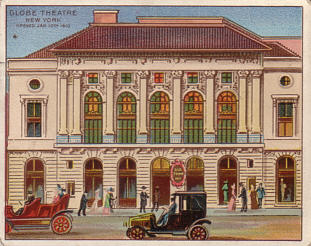 Cigarette Trading Card of the "Globe Theatre, New York, Opened Jan 10th 1910" now the "Lunt-Fontanne Theatre", 205 West 46th Street, Manhattan, New York City Publisher: Between the Acts Little Cigars; Theatres Old and New Series Size: 7.8 x 6.3 cm